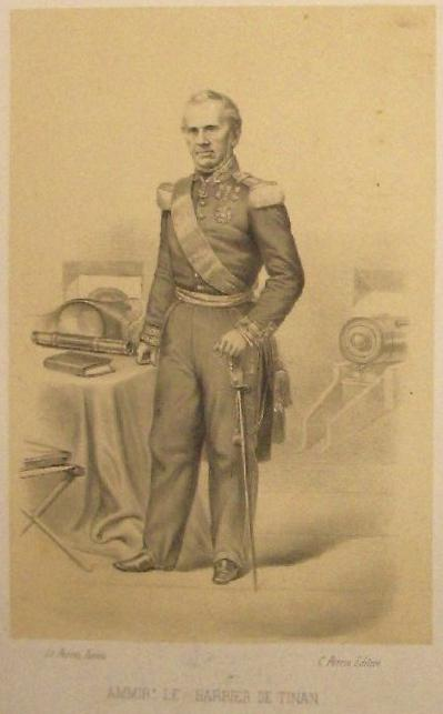 Adelbert Lebarbier de Tinan (1803-1876), French admiral; lithography, 1860, at the time he concluded an armistice between Piemont troops and Francis II of the Two Sicilies.